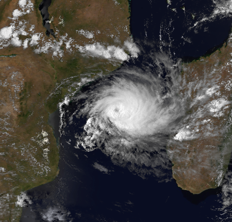 Tropical Cyclone Fila on February 29, 1988